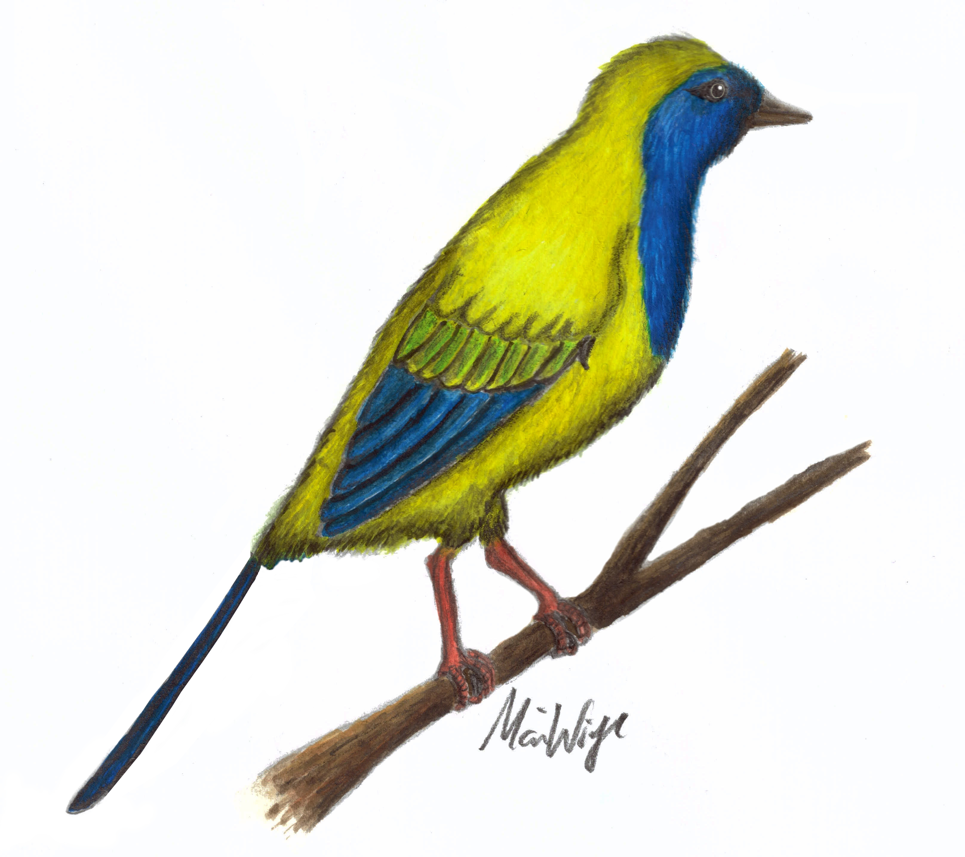 Reconstruction of Liaoxiornis delicatus.